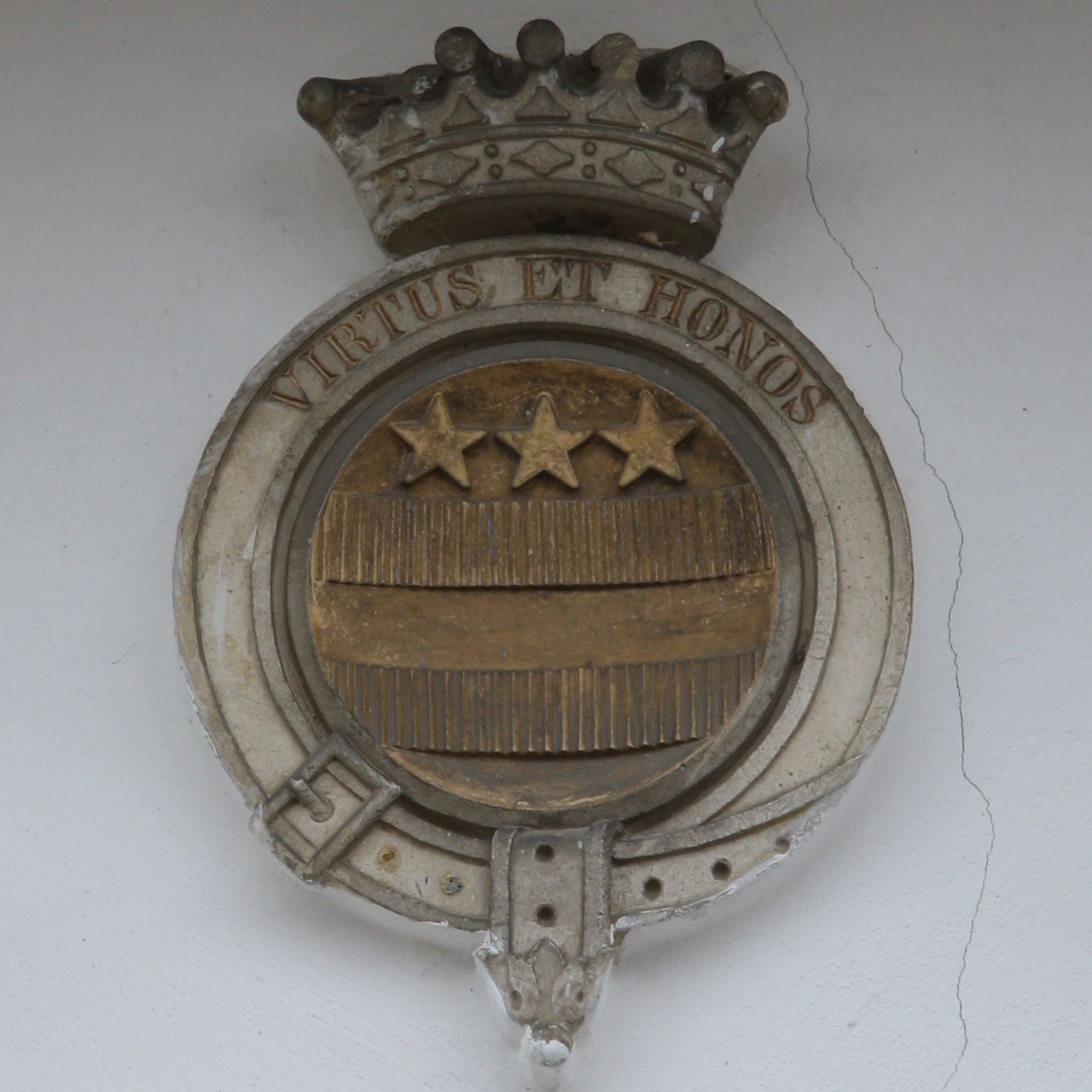 Cemetery of Notzing, Coat of arms of the Washingtons at their tomb